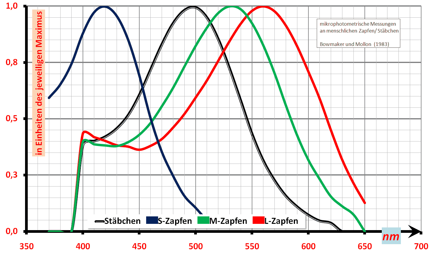 normalized absorption of human rods and cones